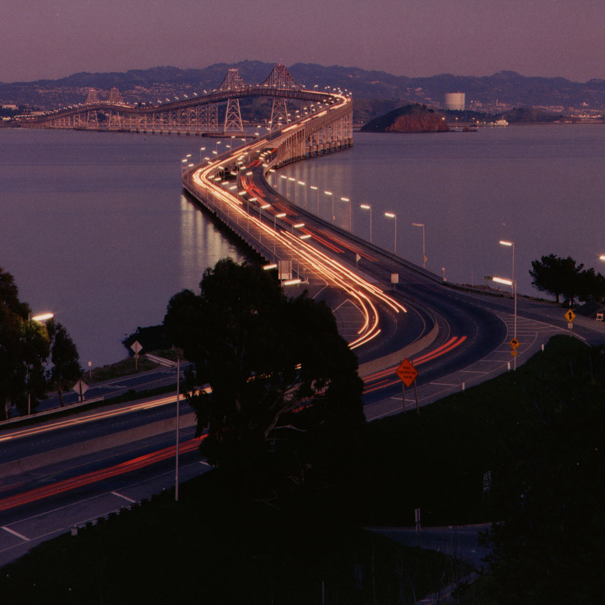 Richmond-San Rafael Bridge facing east.